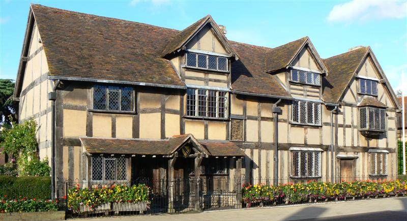 Birth place of William Shakespeare, Stratford upon Avon, England.